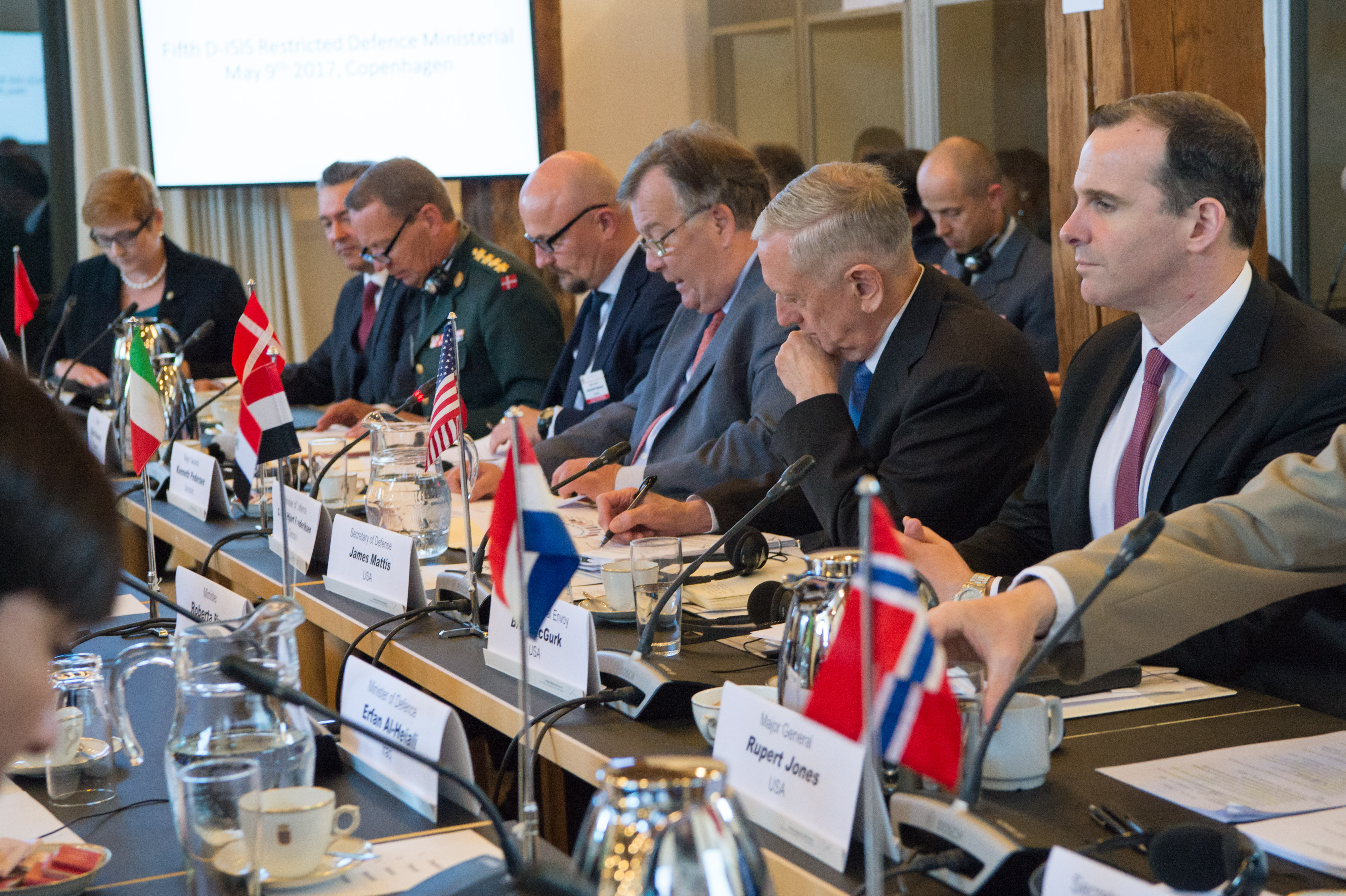 Secretary of Defense Jim Mattis attends a Global Coalition on the Defeat of ISIS meeting at Eigtveds Pakhus in Copenhagen, Denmark, May 9, 2017. (DOD photo by U.S. Air Force Staff Sgt. Jette Carr)